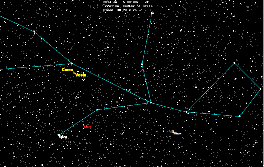 Ceres and Vesta conjunction July 5, 2014